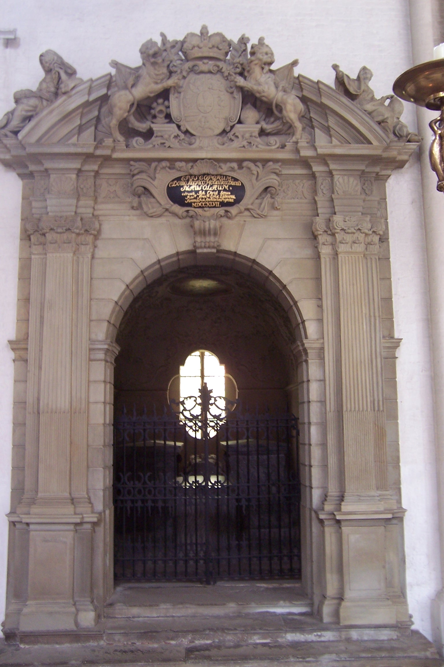 Neue Fürstbischöfliche Grabkapelle, Lübeck cathedral, sandstone portal by Hassenberg